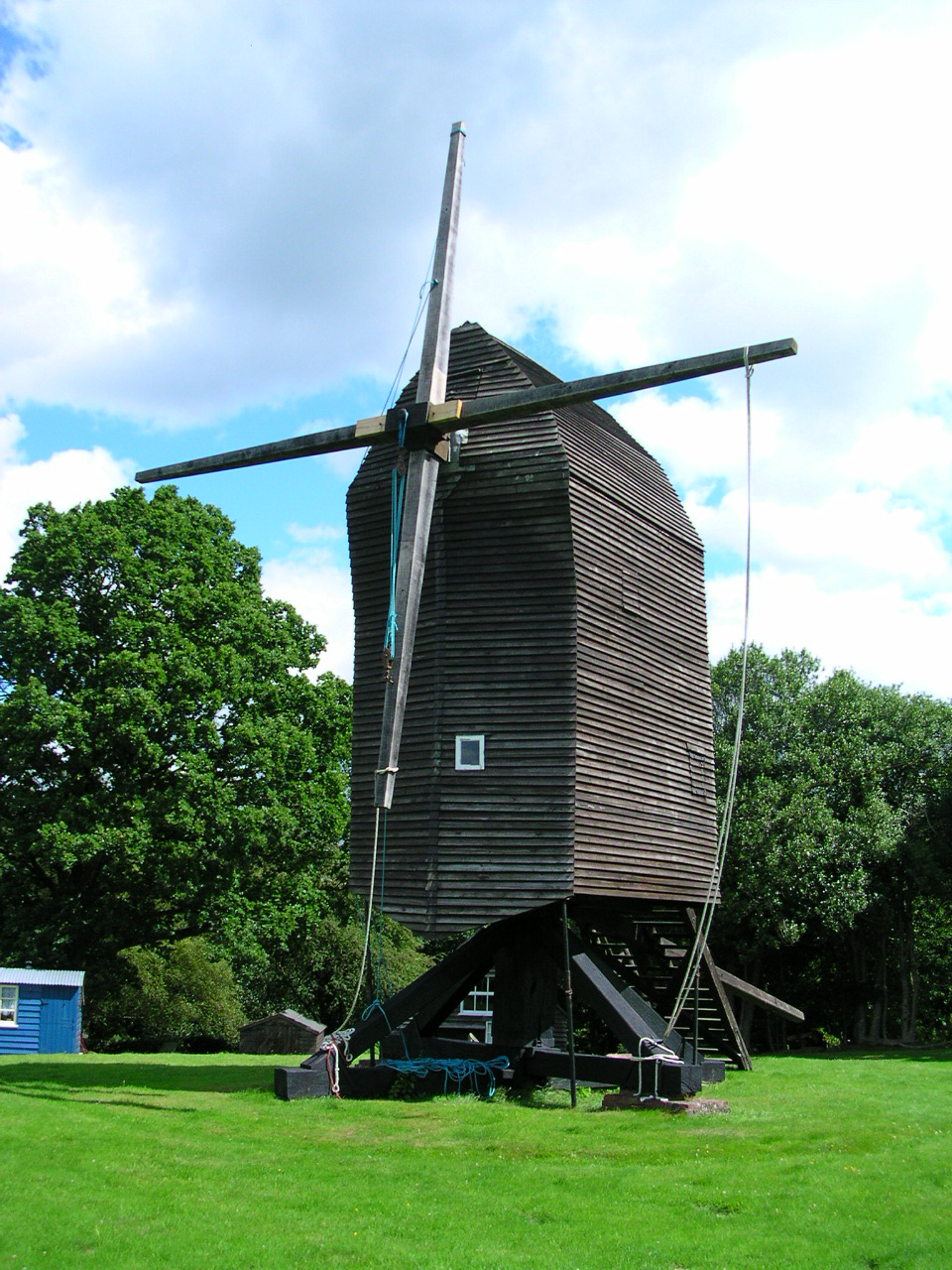 Nutley Windmill, East Sussex, England.